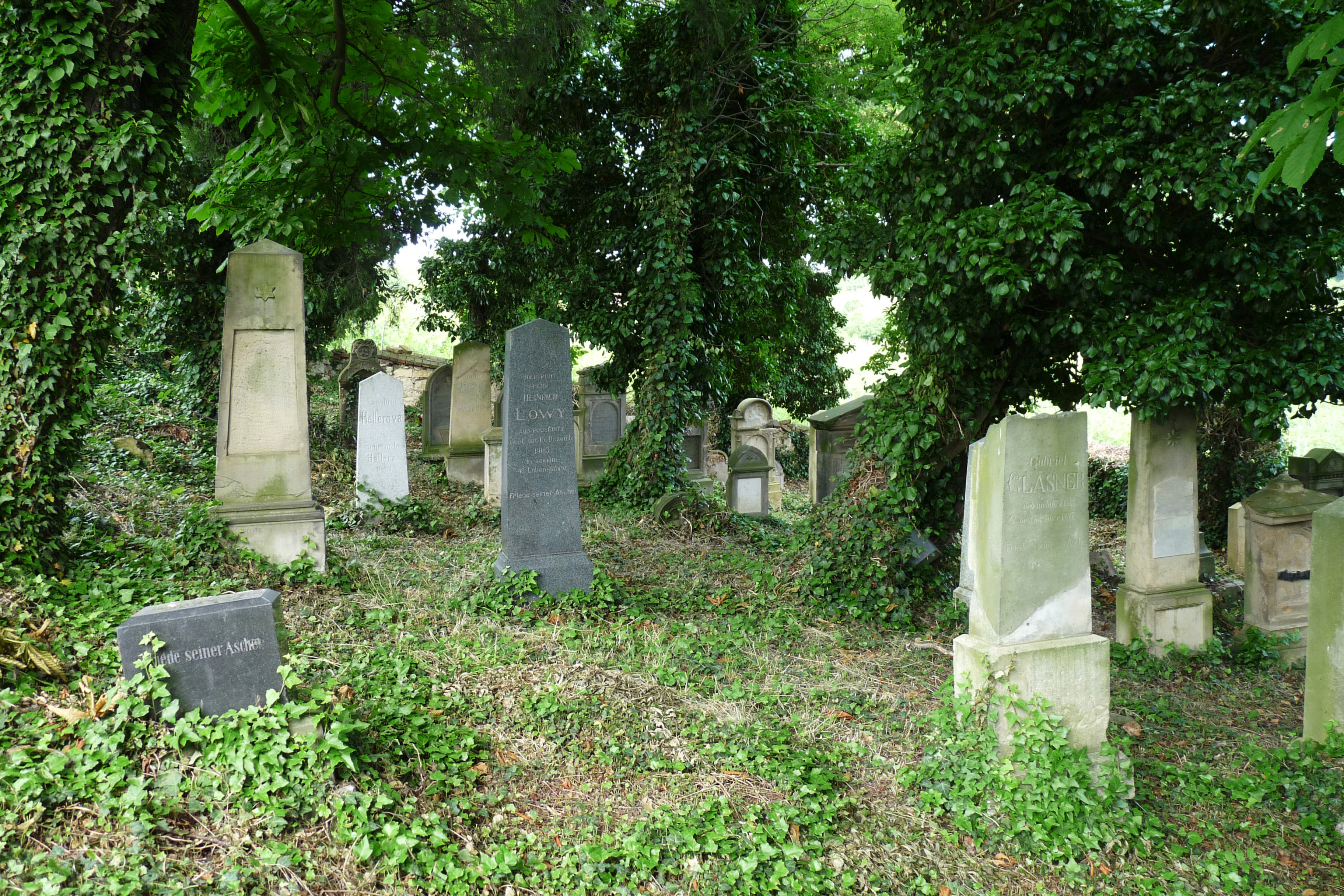 Gravestones in the Jewish cemetery by the village of Třebívlice, Litoměřice District, Ústí nad Labem Region, Czech Republic.